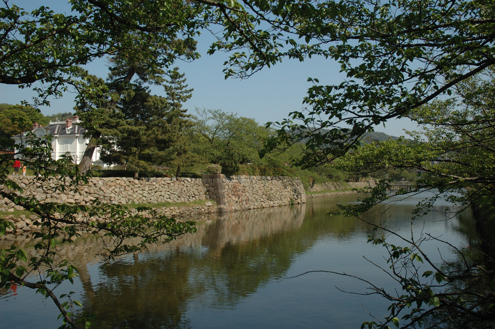 Tottori castle moat,stone wall and Jinpukaku